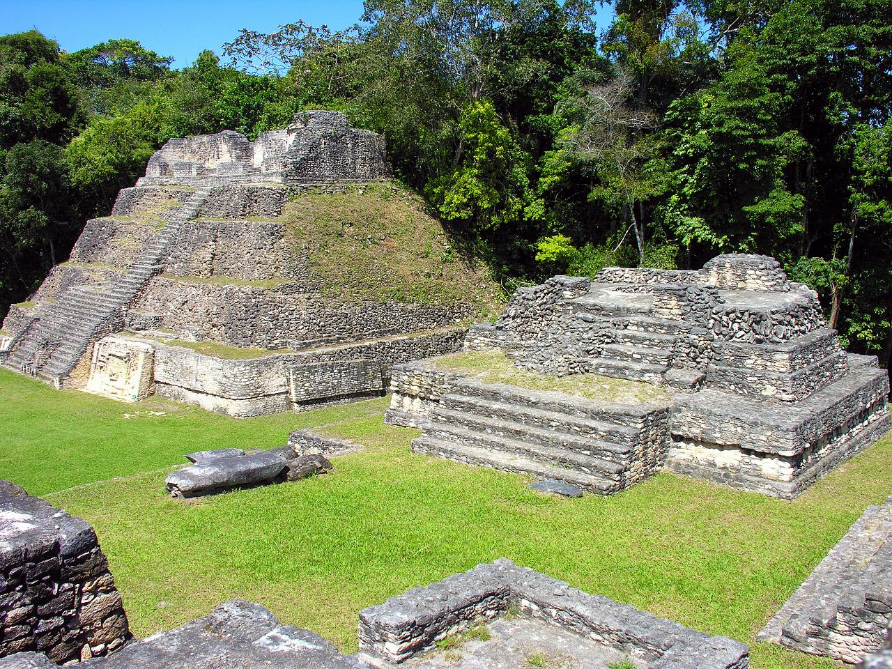 Plaza A there were four large pyramids, one on each side. The one with parts of masks on the bottom is Structure A3. Caracol, Belize